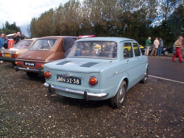 Picture of a 1963 Simca 1000, taken at the annual Matra-Simca-Talbot meeting in 2002